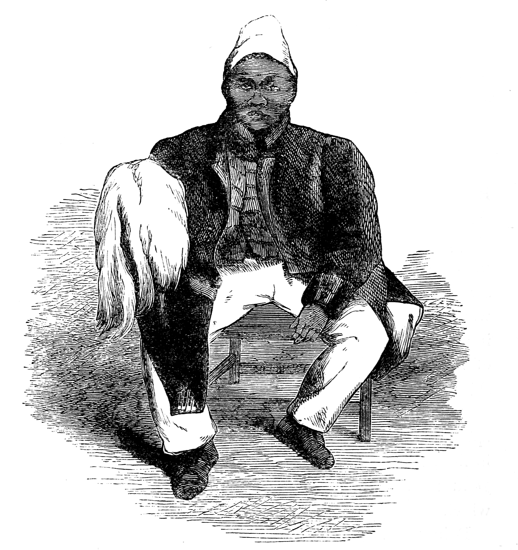 Jonker Afrikaner; illustration from p.232 of the 1861 book Lake Ngami.